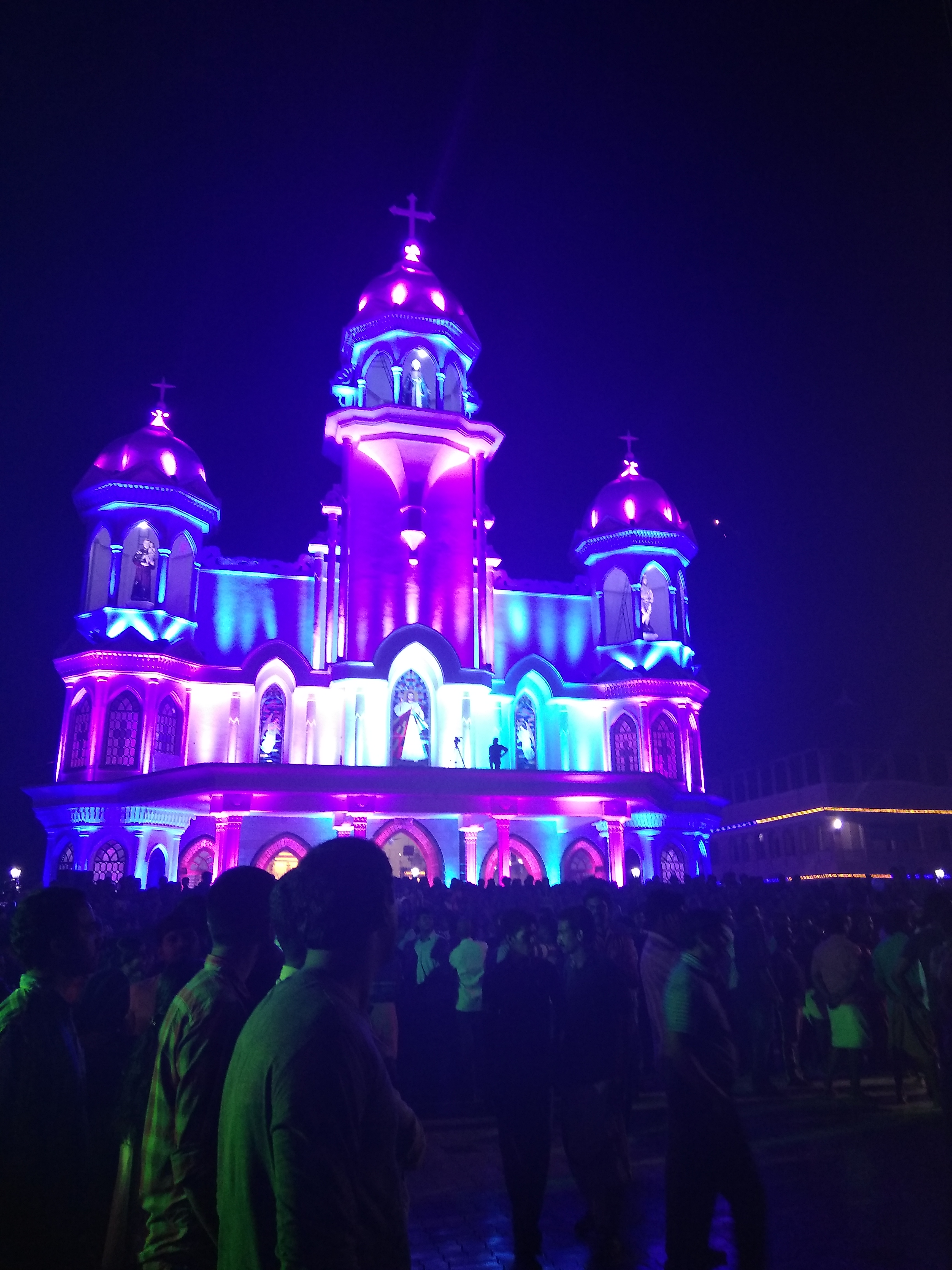 St Mary's Church Vendore decorated with lights. Taken on 2017 January festival.